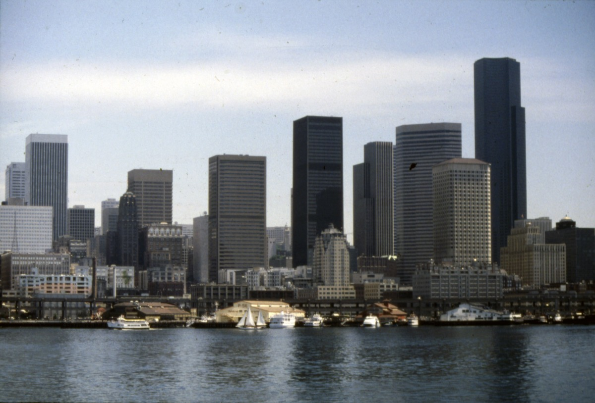 Downtown Seattle skyline from either West Seattle or Elliott Bay, circa 1986.